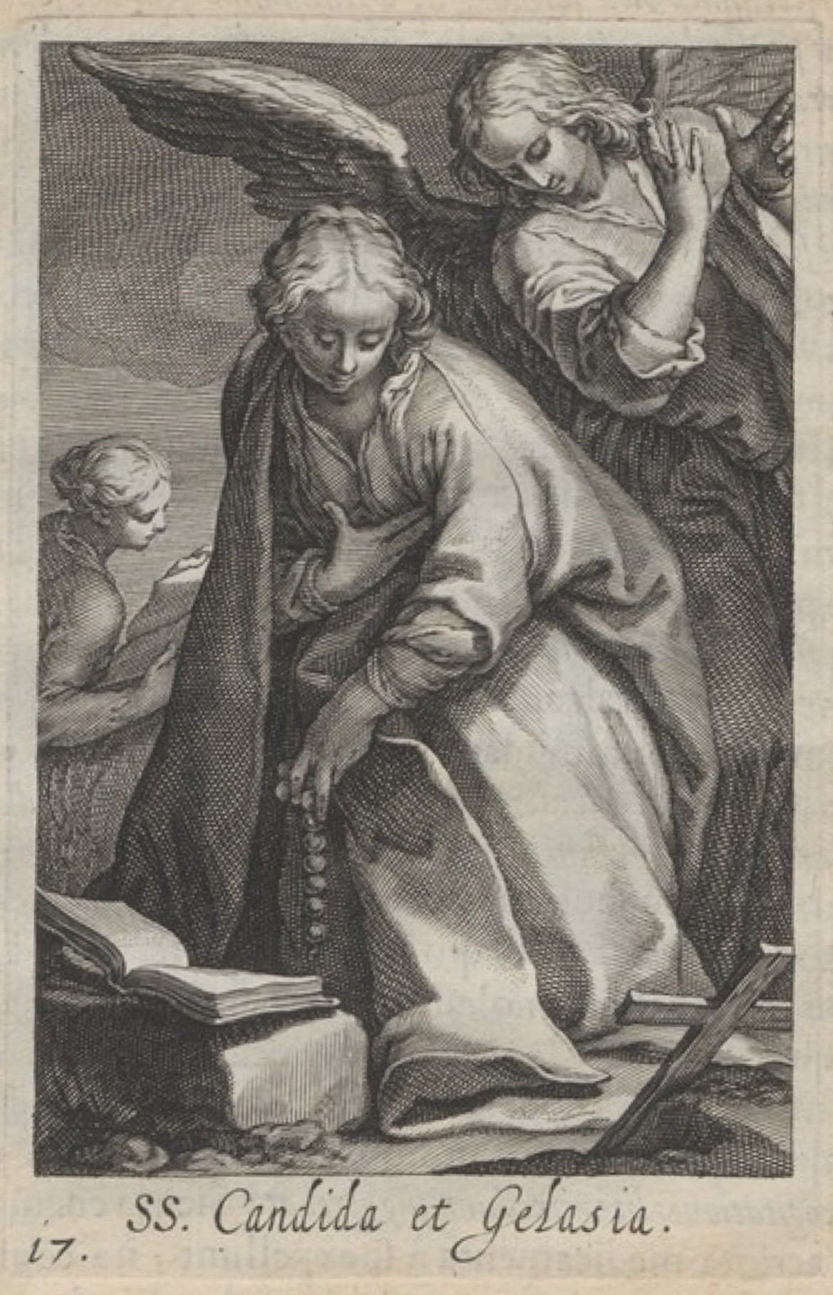 Plate from the 1619 book Sylva anachoretica Aegypti et Palaestinae. Plate design by Abraham Bloemaert (1564/66-1651); engraving by Boetius à Bolswert (ca. 1580-1633)